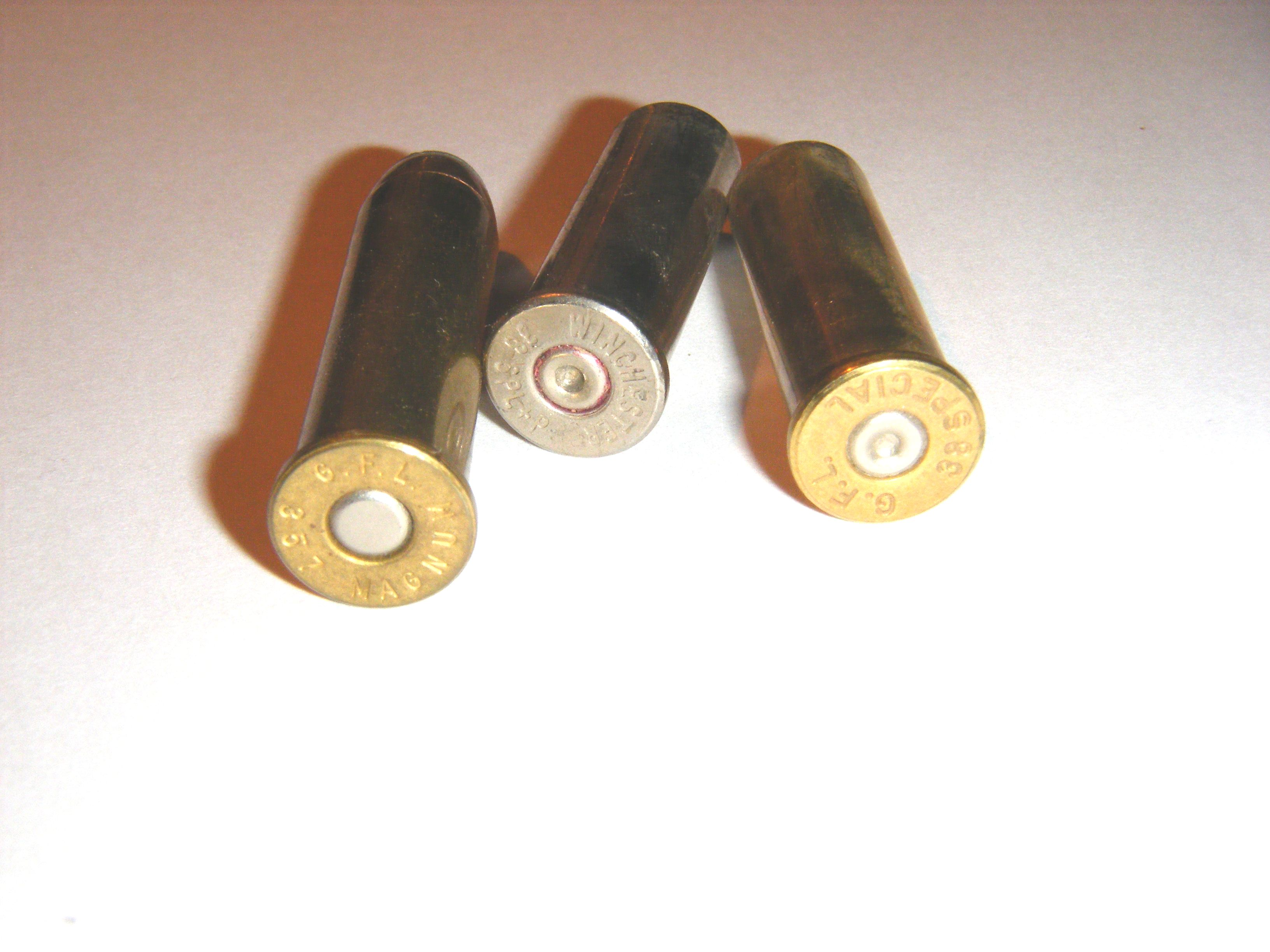 Cartridges